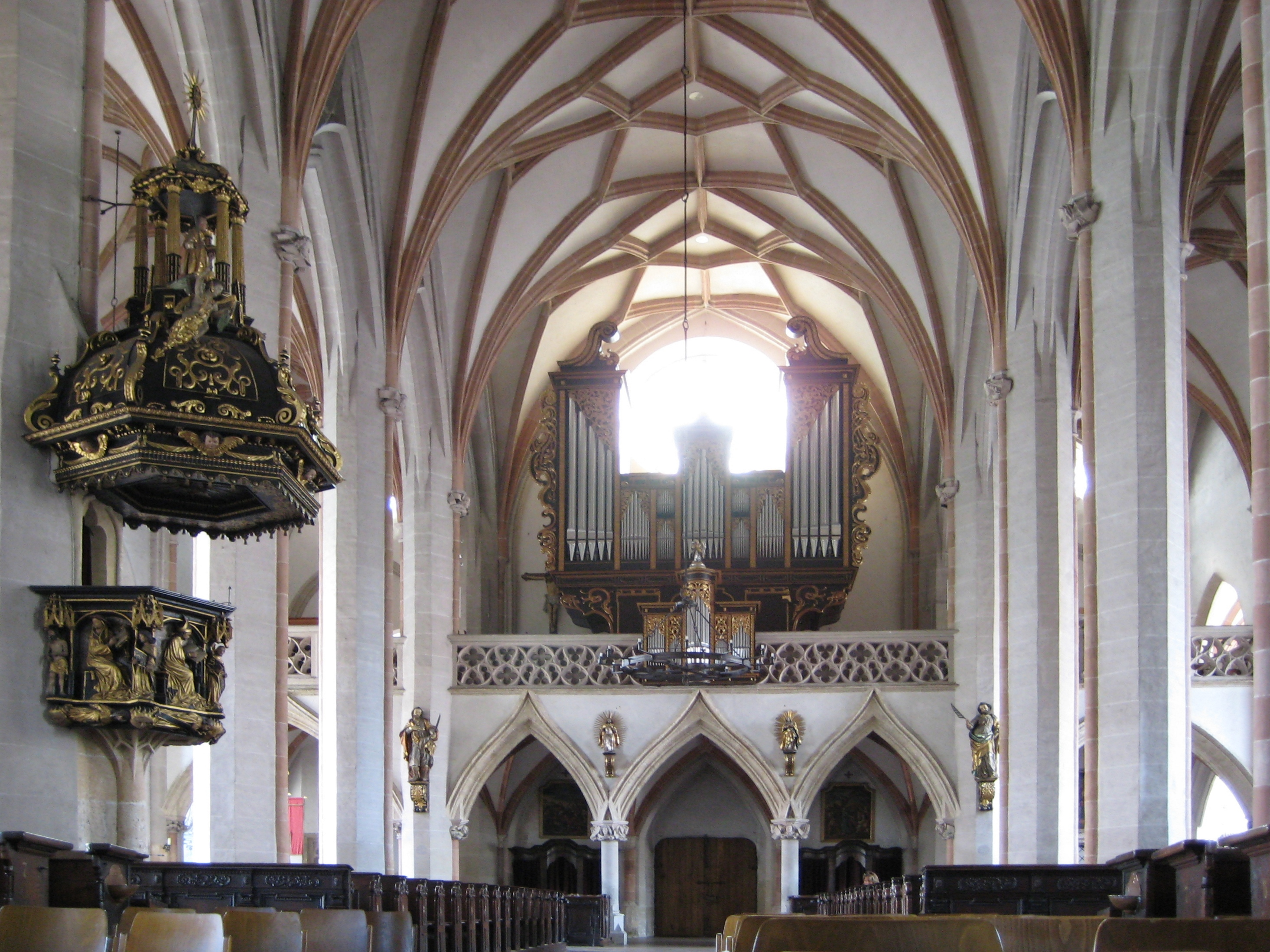 Church St. Stephan in Braunau am Inn